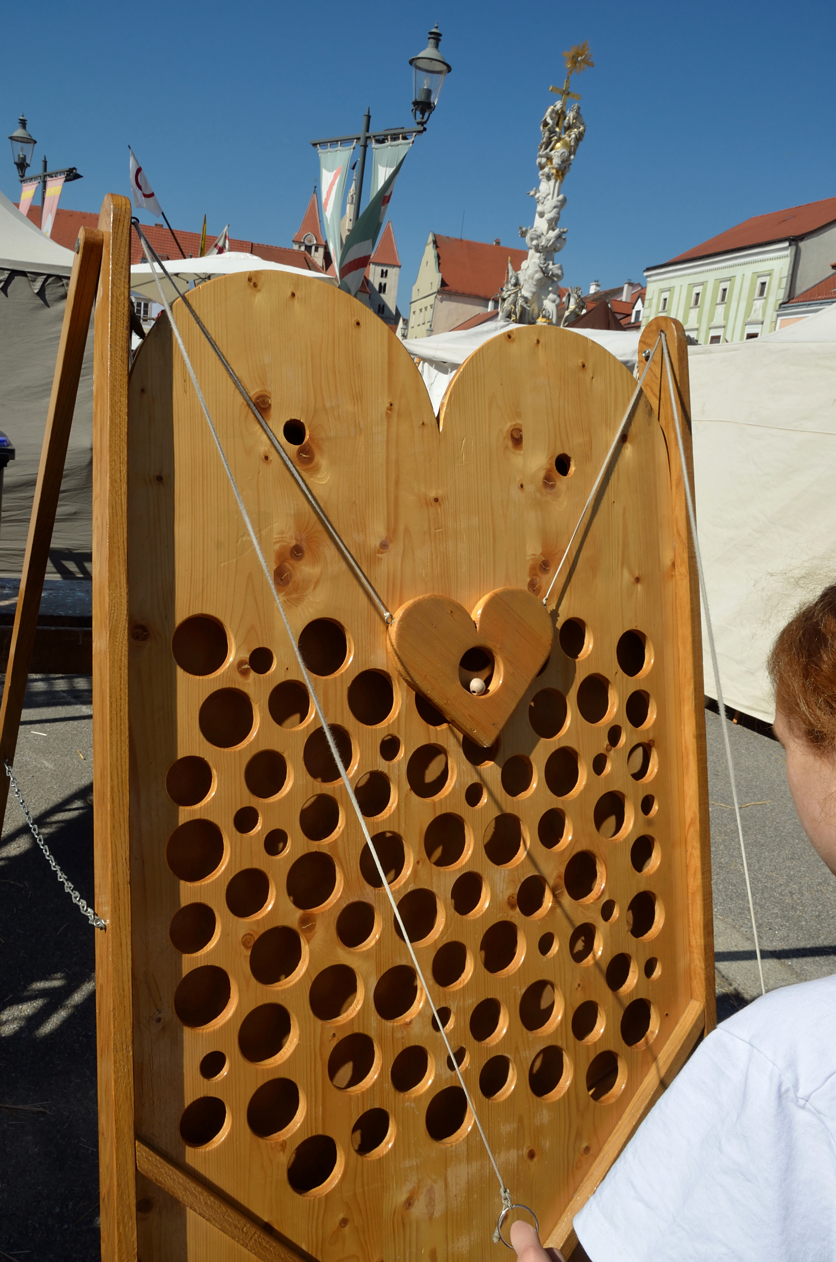 Medivial festival at Eggenburg, Lower Austria, 2013, September 7th-8th. Physical-skill game. You have to control the heart with the small ball inside with two lines (game can be played solo or with a partner) and move it up the slope with holes and hit the target hole.